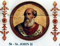 Pope John II